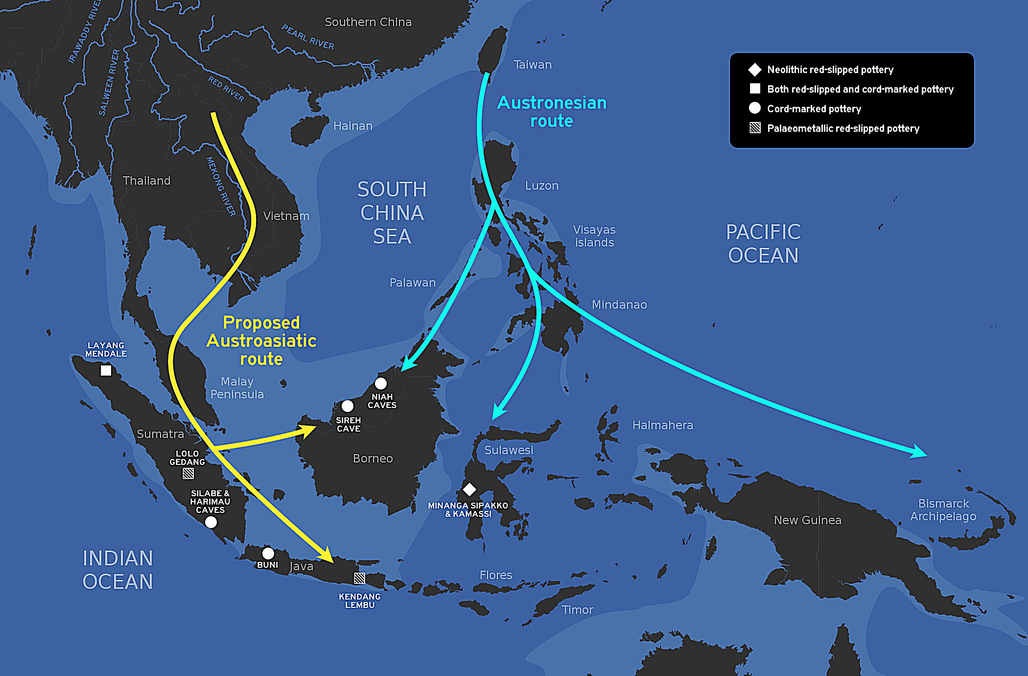 The proposed route of Austroasiatic and Austronesian migration into Indonesia and the geographic distribution of sites that have produced red-slipped (Austronesian) and cord-marked (Austroasiatic) pottery. The Austroasiatic migration route began earlier than the Austronesian expansion, but later migrations of Austronesians resulted in the assimilation of the pre-Austronesian Austroasiatic populations. per Simanjuntak, Truman (2017). "The Western Route Migration: A Second Probable Neolithic Diffusion to Indonesia". In Piper, Hirofumi Matsumura and David Bulbeck, Philip J.; Matsumura, Hirofumi; Bulbeck, David. New Perspectives in Southeast Asian and Pacific Prehistory. terra australis. 45. ANU Press. ISBN 9781760460952.